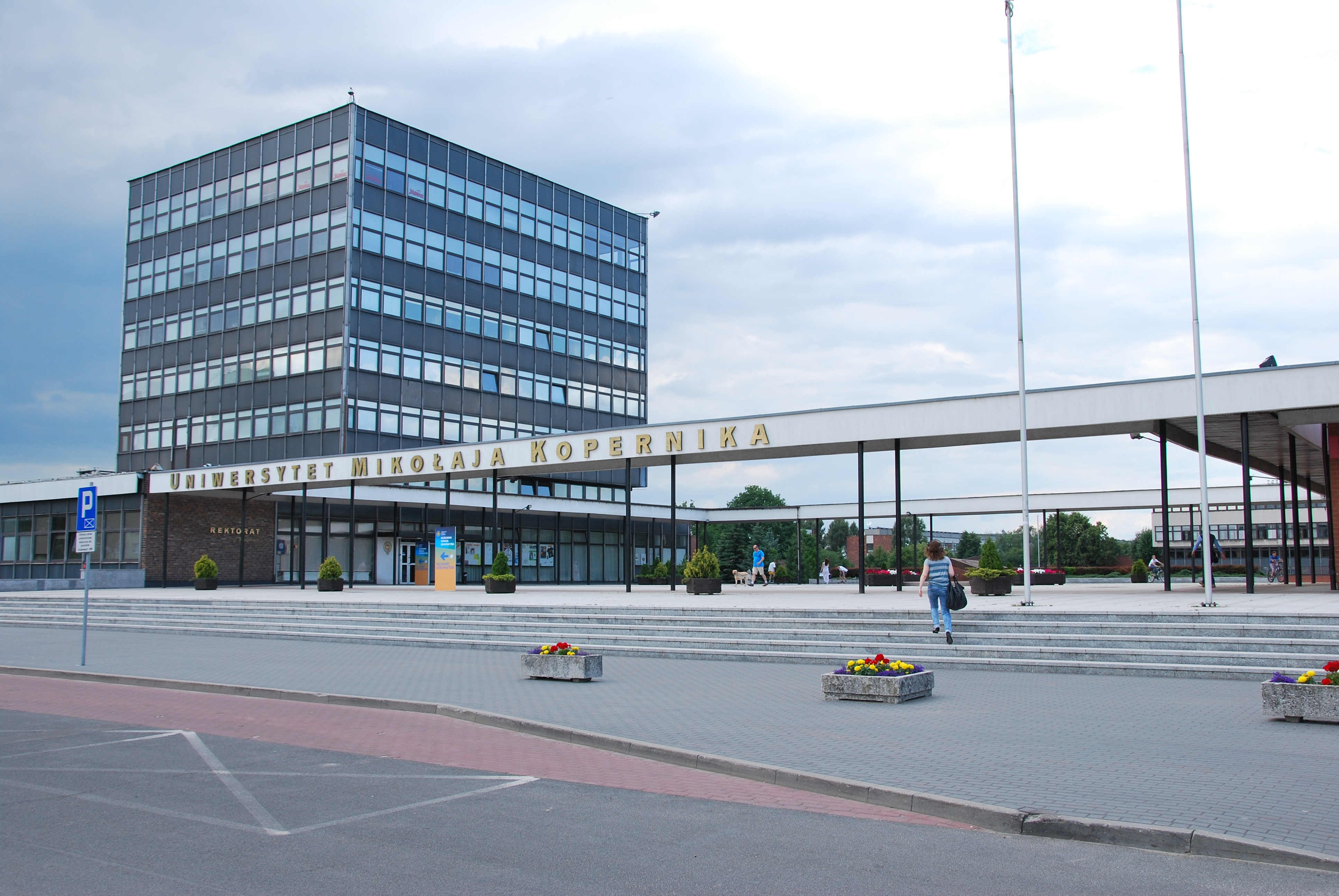 Nicolaus Copernicus University in Toruń, rector's office